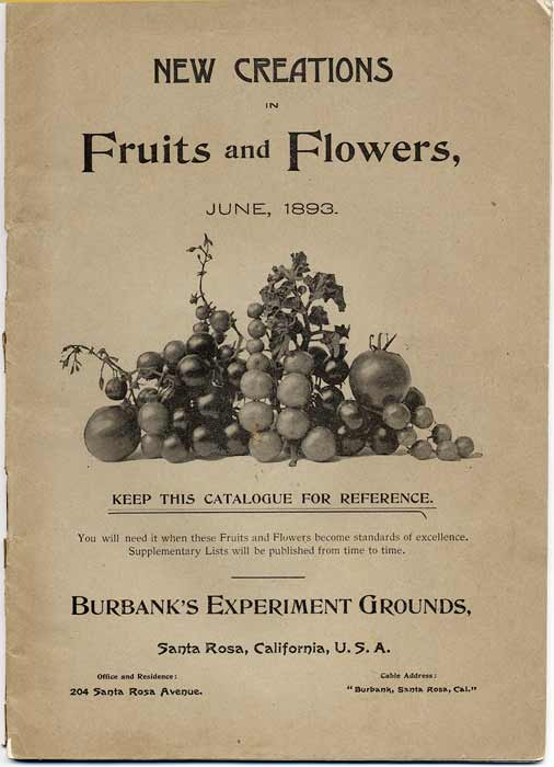 "New Creation in Fruit and Flowers"